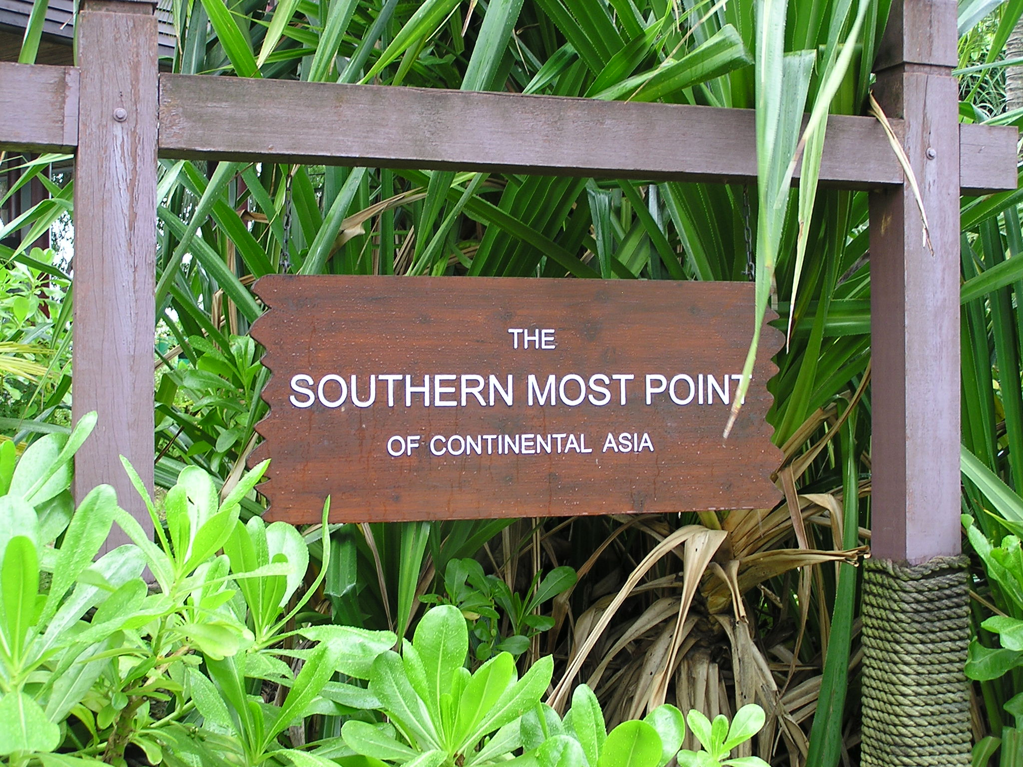 A sign at Palawan Beach on Sentosa Island in Singapore — claiming that it is the "southernmost point of continental Asia".